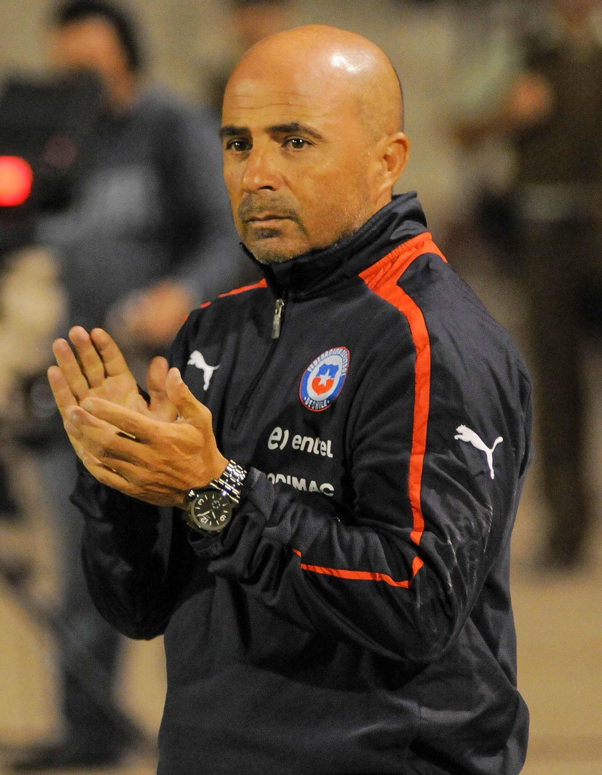 En partido amistoso entre la Selección de Chile y su similar de Senegal en el marco de los encuentros de despedida del antiguo estadio La Portada de La Serena